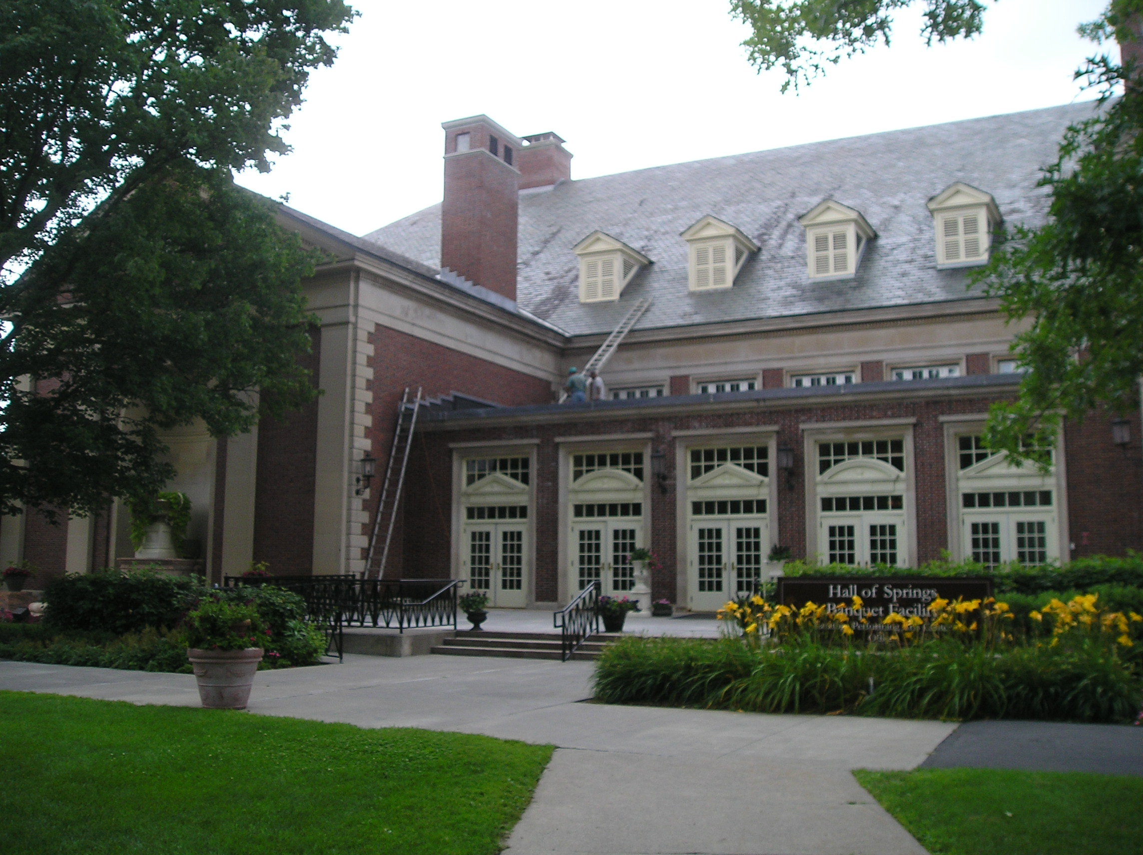 The exterior of the Hall of Springs banquet hall inside Saratoga Spa State Park as photographed 1 August 2008.